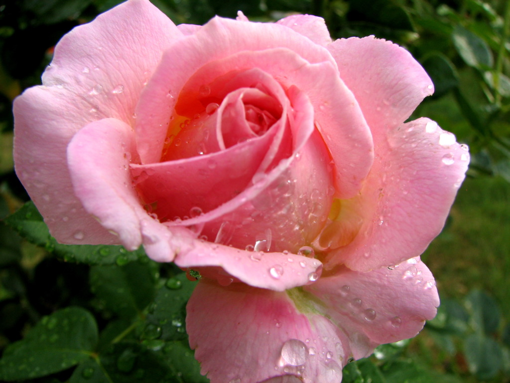 Pink Rose In The Rain